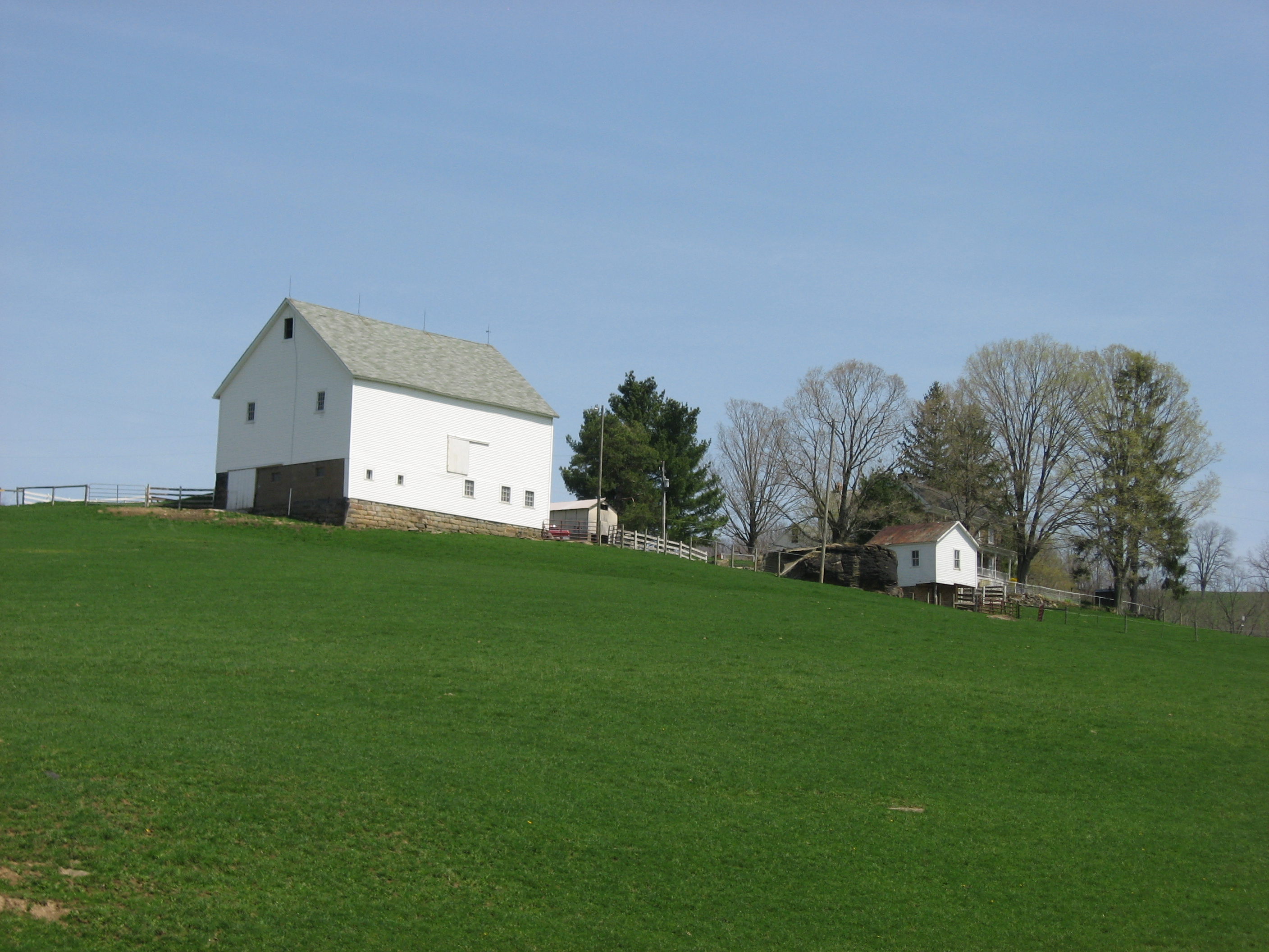 Barn, springhouse, and residence at the David Stewart Farm, located along the Dallas Pike north of Dallas in Ohio County, West Virginia, United States. The farm is listed on the National Register of Historic Places.